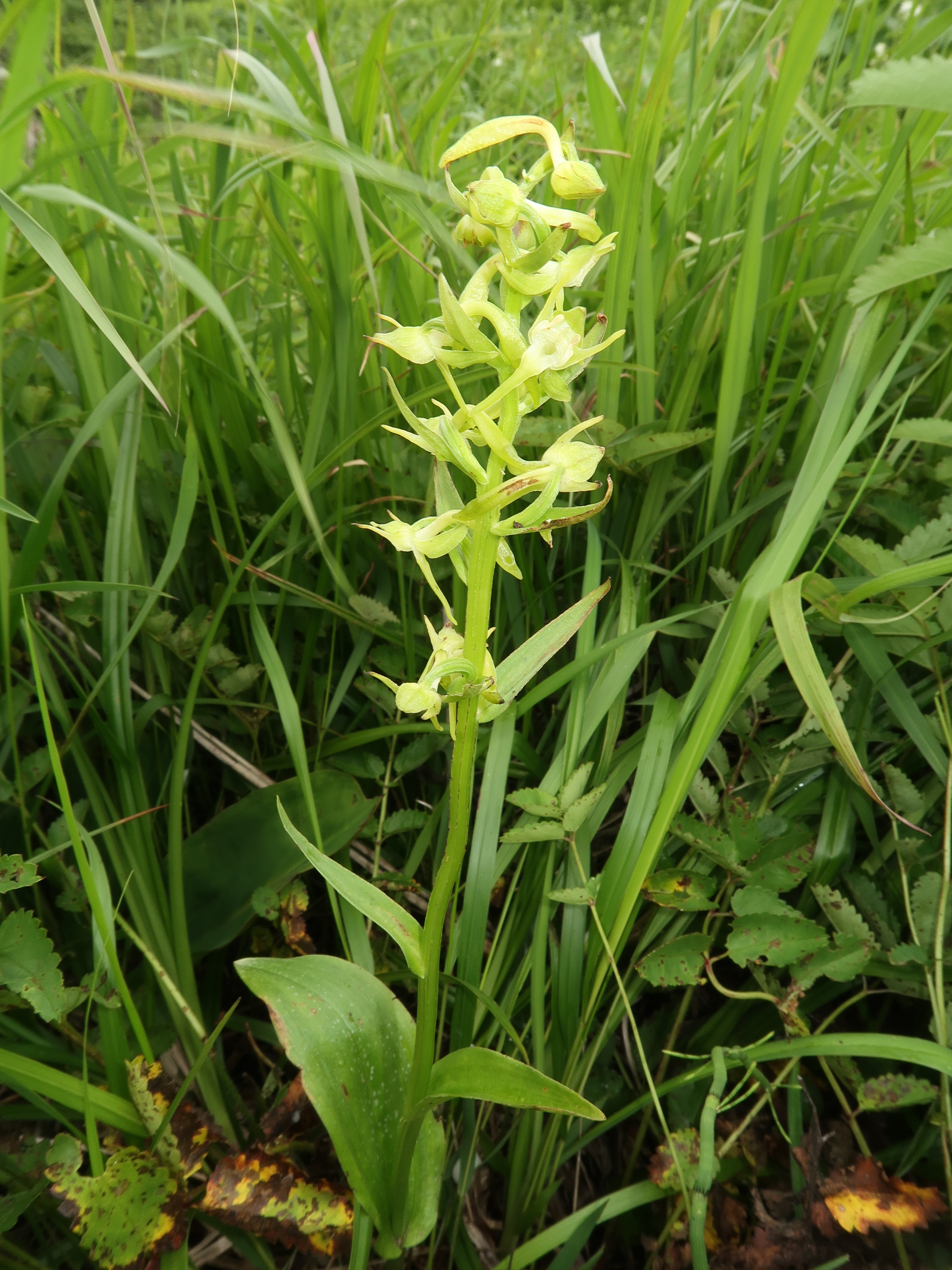 Platanthera mandarinorum subsp. mandarinorum var. oreades, Oze, Fukushima pref., Japan